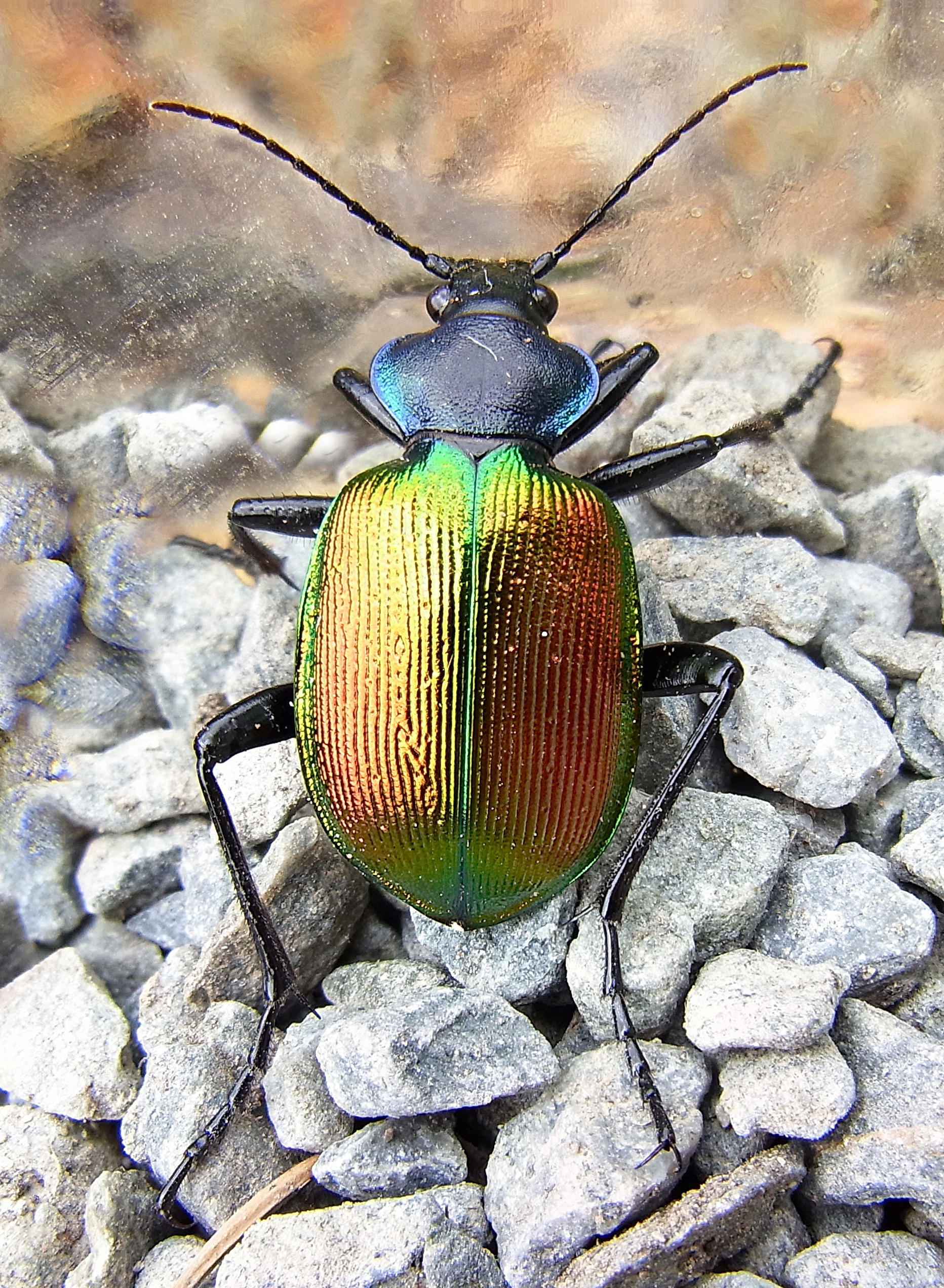 Calosoma sycophanta from France, north of Carcassonne at 2011-06-08